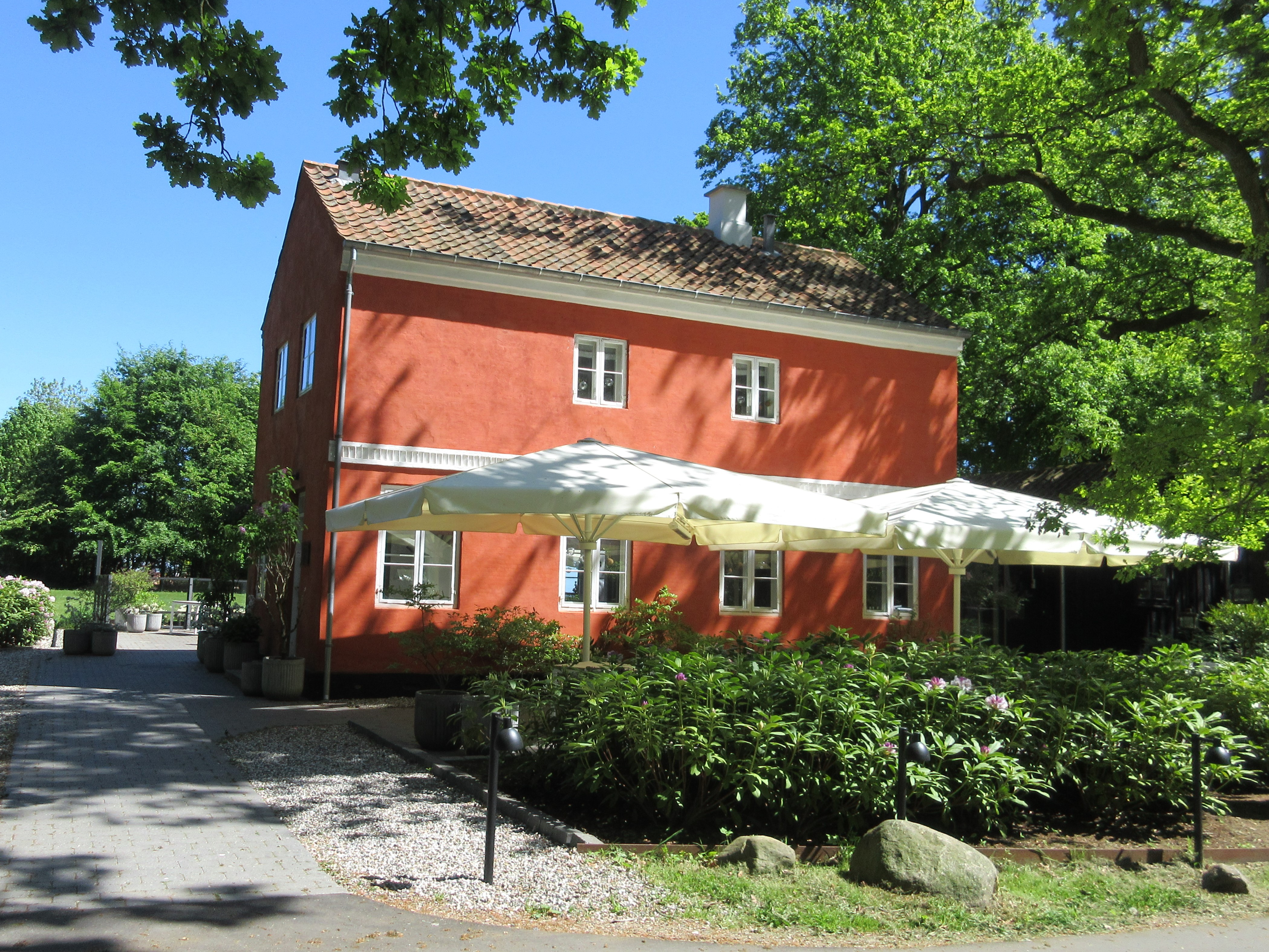 Den Røde Cottage in Copenhagen, Denmark